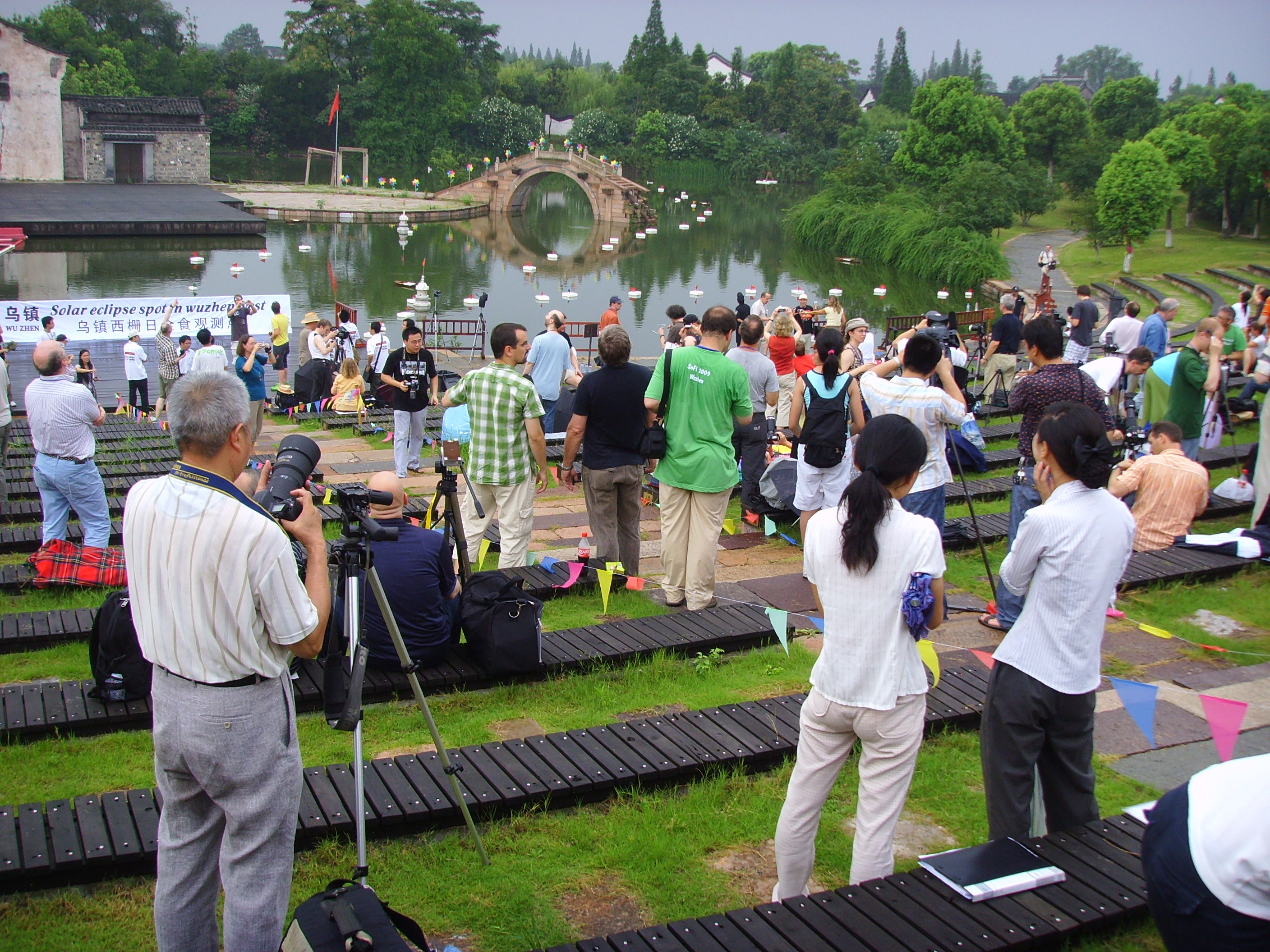 Wuzhen Xizha, Tongxiang, Zhejiang, P. R. of China: "water theatre" a few minutes before totality of the solar eclipse 2009-07-22